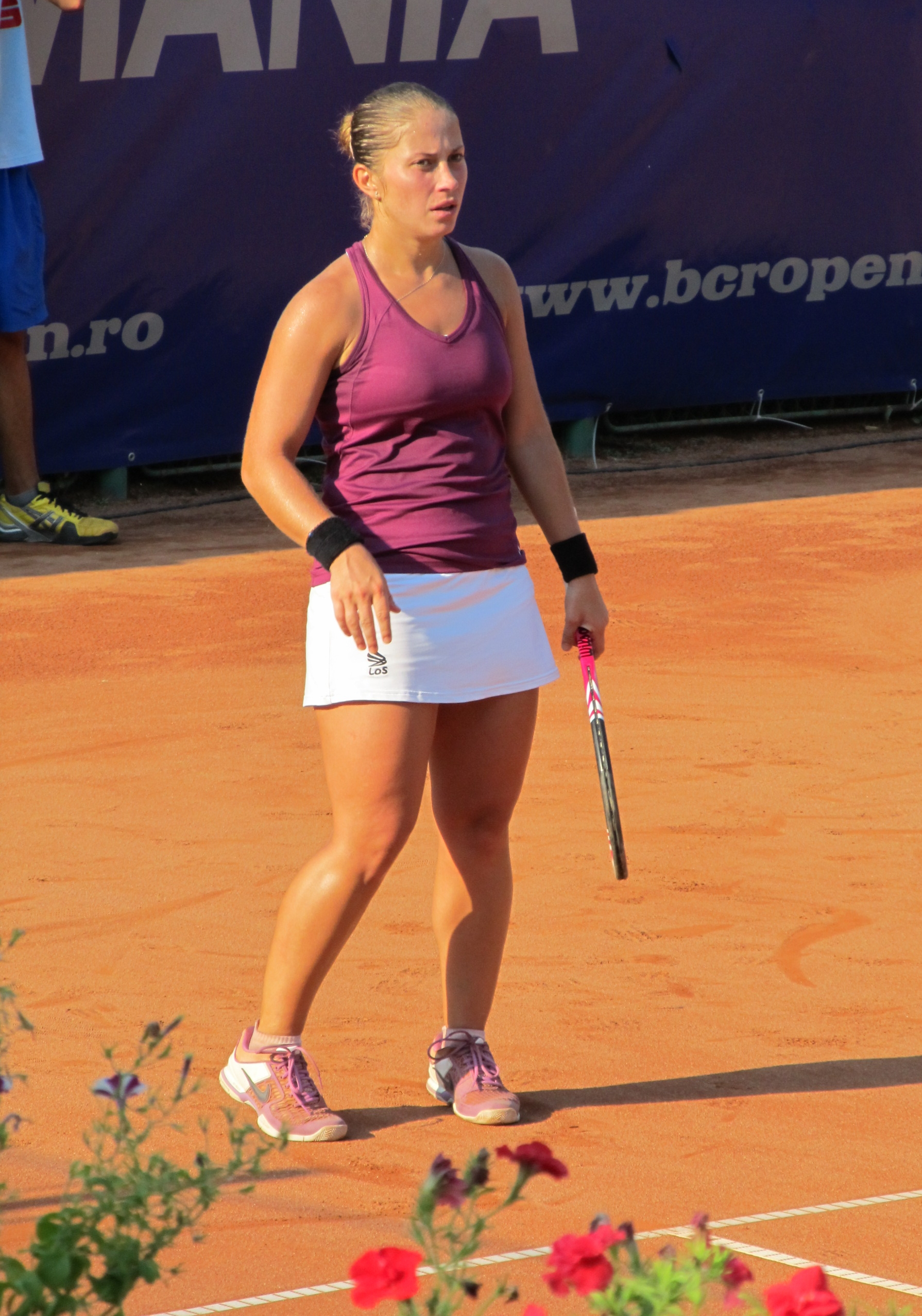 Mădălina Gojnea playing singles in the first round at the 2011 BCR Open Romania Ladies